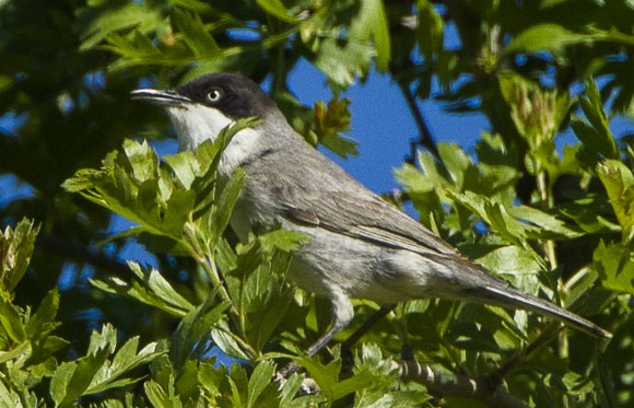 Eastern Orphean Warbler - Uzbekistan_S4E8419